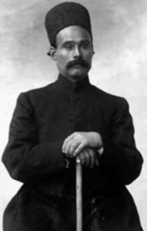 Baqer Khan (died in 1911)